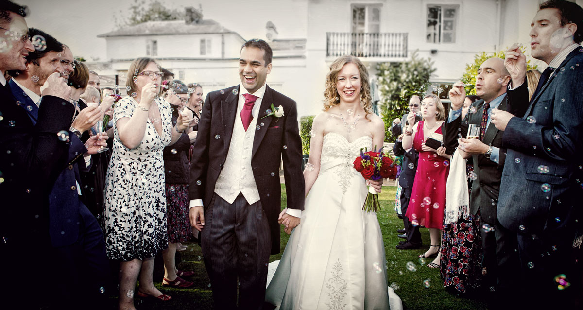 Confetti bubbles at a London wedding.